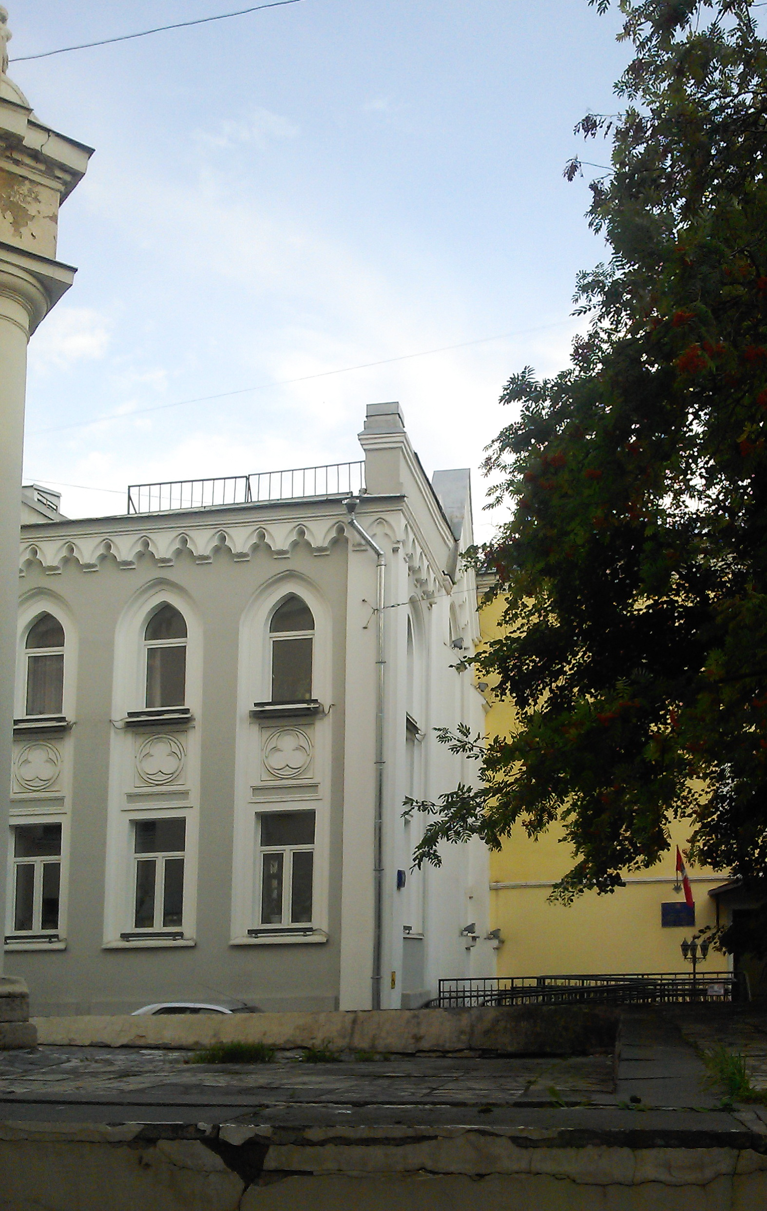 Former Catholic church of Saint Peter and Paul (Moscow)